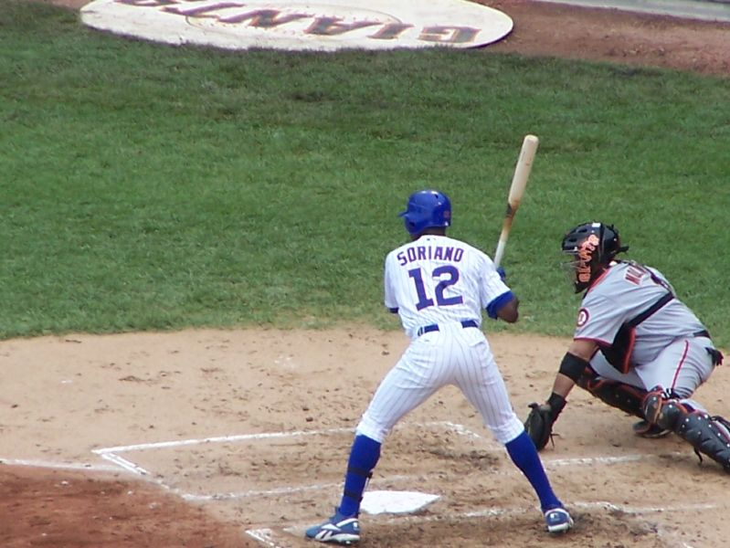 Alfonso Soriano move approved by User:Common Good